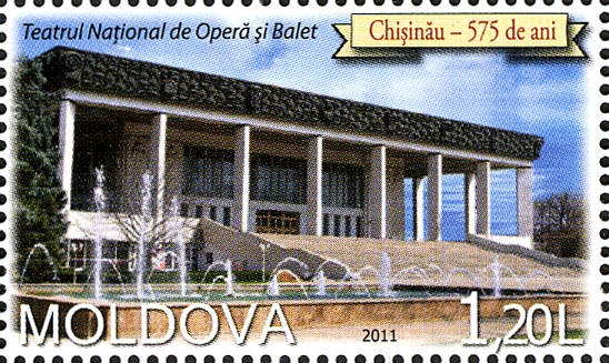 Stamps of Moldova